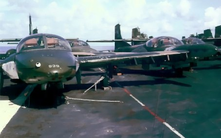 Ex-VNAF A-37s on the deck of USS Midway being transported from Thailand to Guam